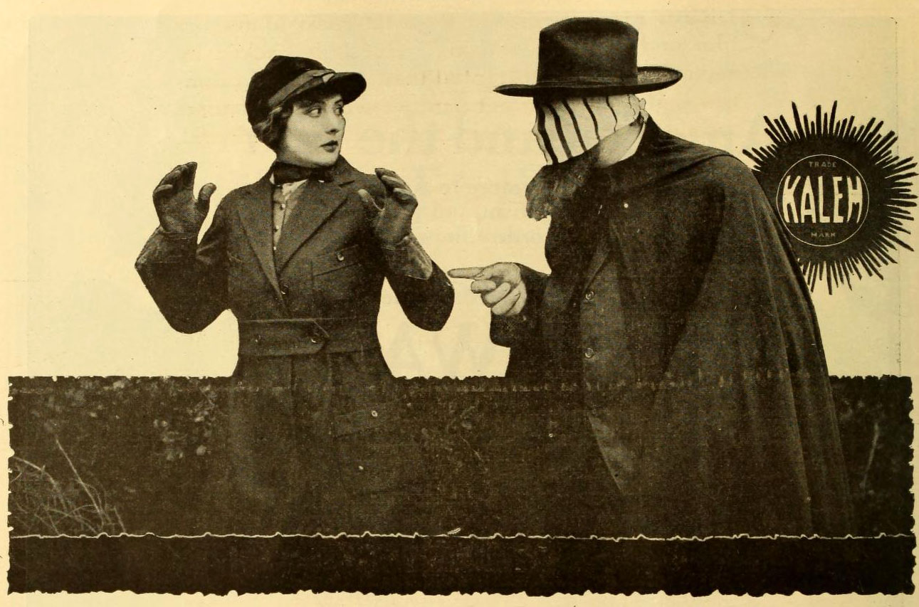 Advertisement in Moving Picture World